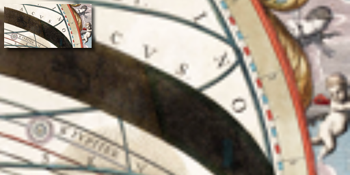 Image resampling using bilinear interpolation